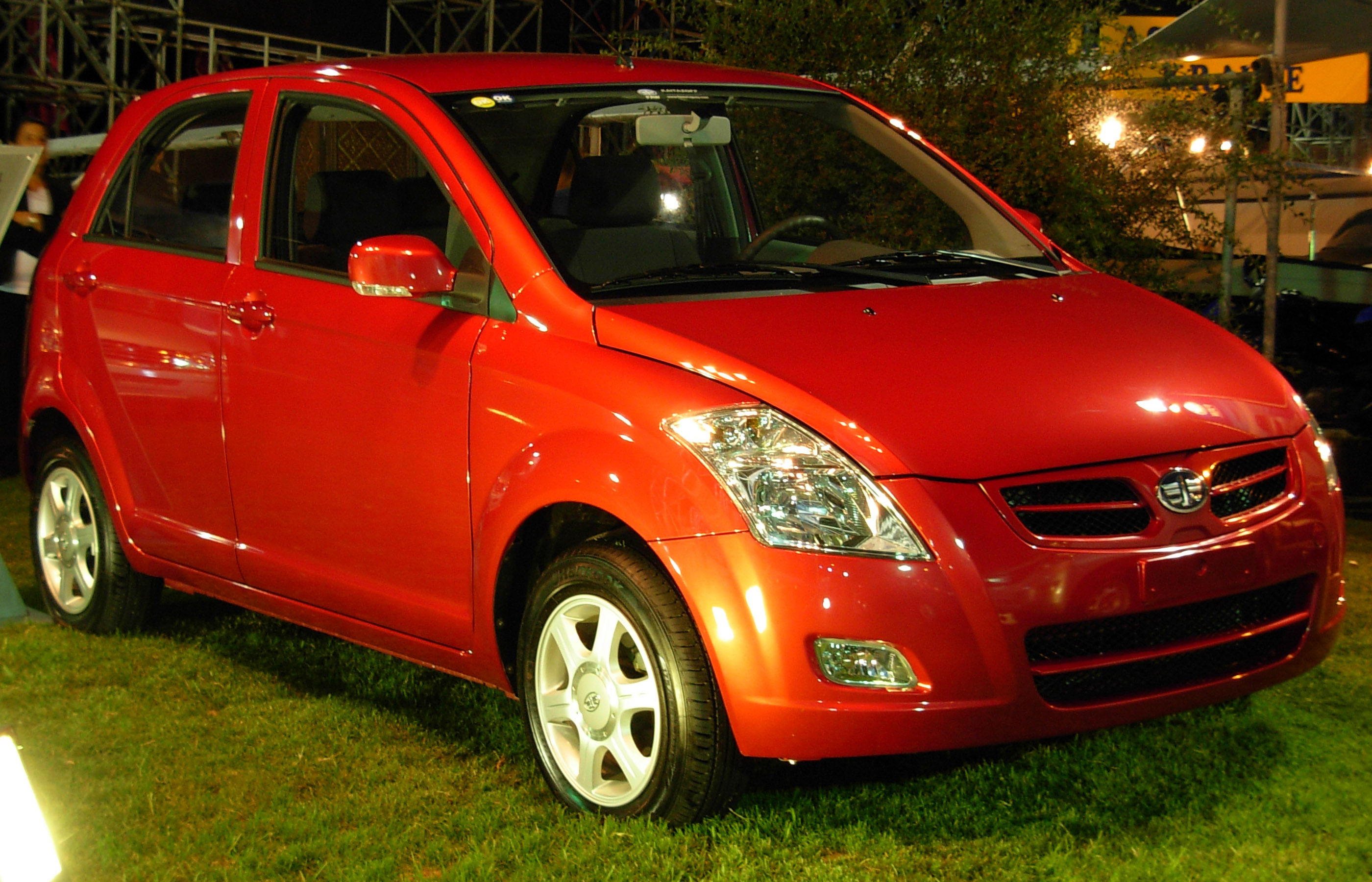 FAW V2 hatchback at the 2012 Montevideo Motor Show.